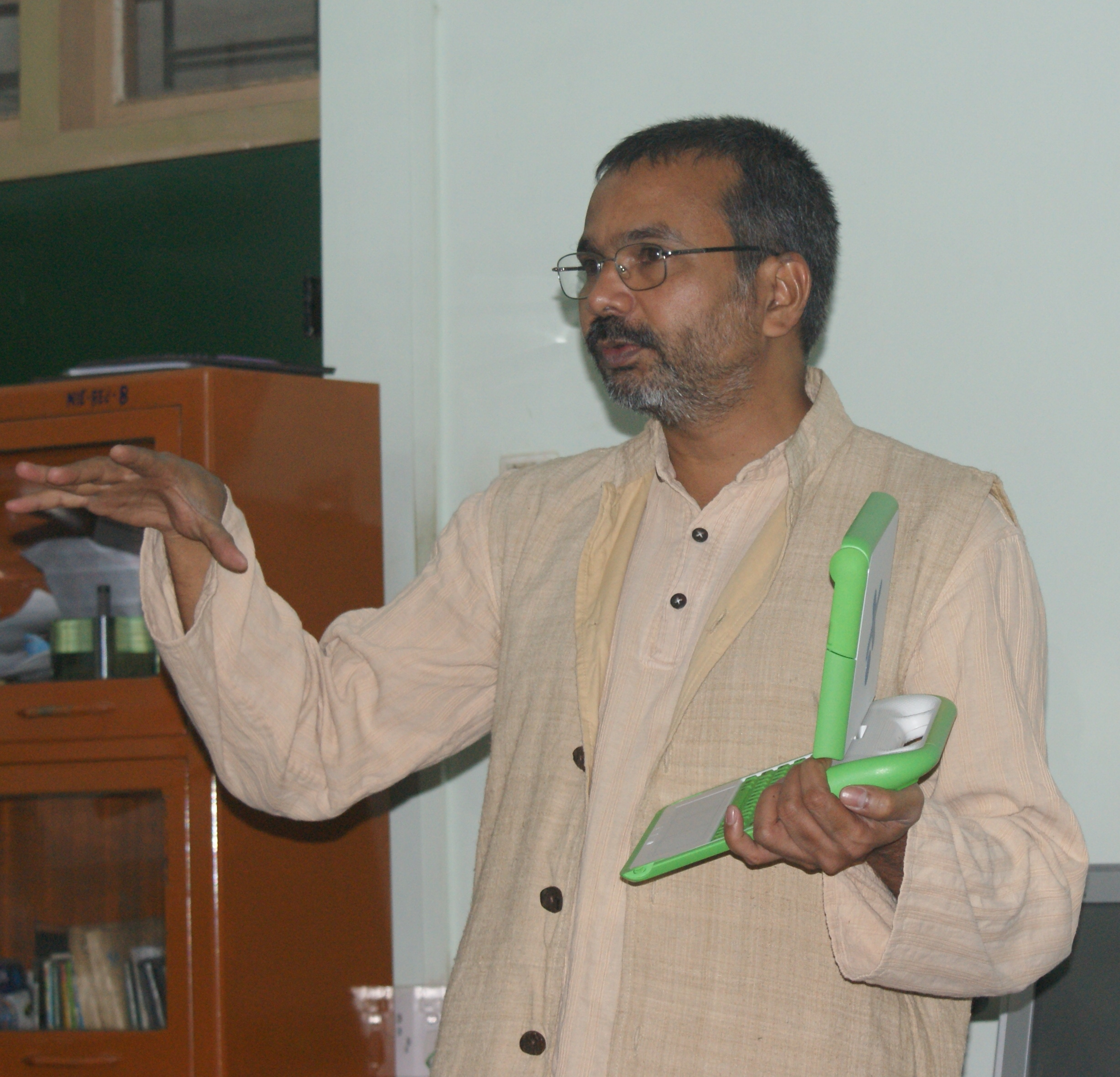 Nagarjuna G, photo in NIE, Panaji, Goa.